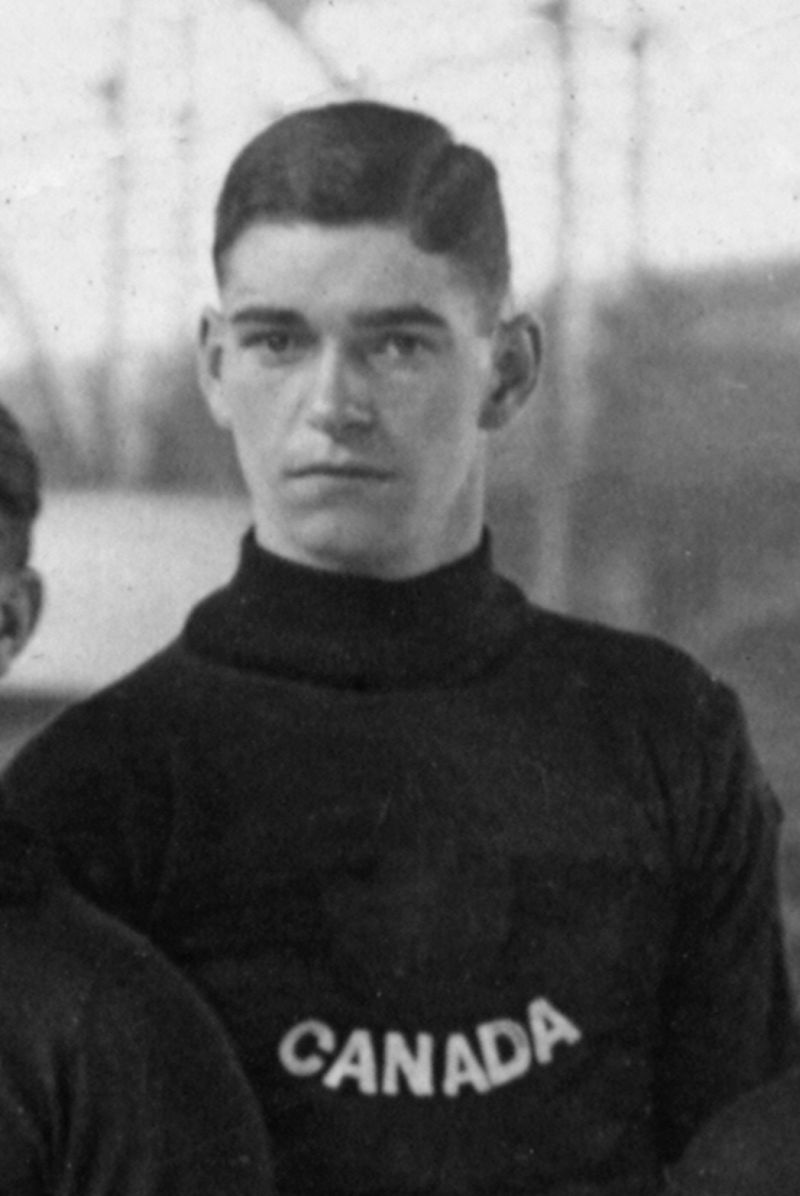 Ice hockey player Allan "Huck" Woodman of the Winnipeg Falcons representing the Canadian national ice hockey team at the 1920 Summer Olympics in Antwerp, Belgium. The picture is a crop out of a larger team photo taken inside the ice rink Palais de Glace d'Anvers. The ice hockey tournament at the 1920 summer Olympics took place between April 23 and April 29. The canadian team won gold medals at the games.